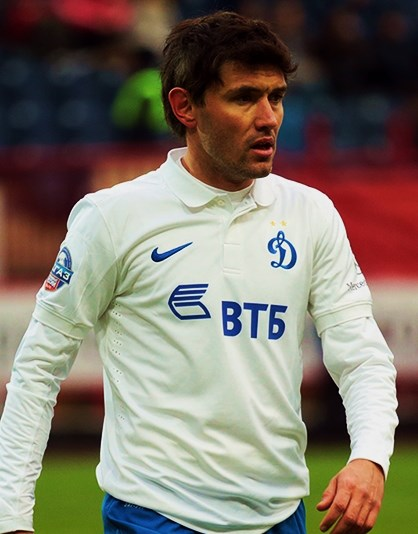 Yuri Zhirkov